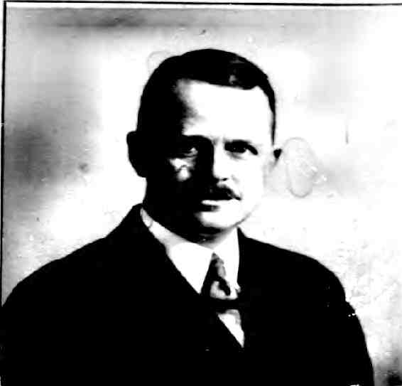 Chandler Rathform Post – Passport application photograph